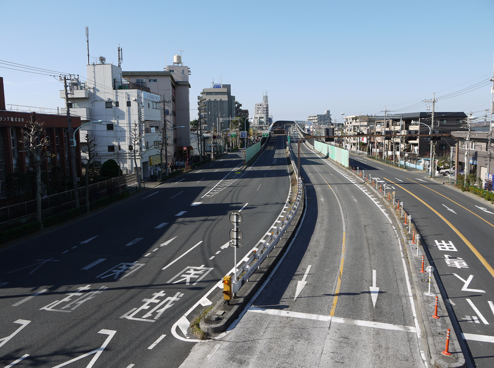 Stage of the beginning of the movie "I Am a Hero", Miharadai Nerima-ku, Tokyo